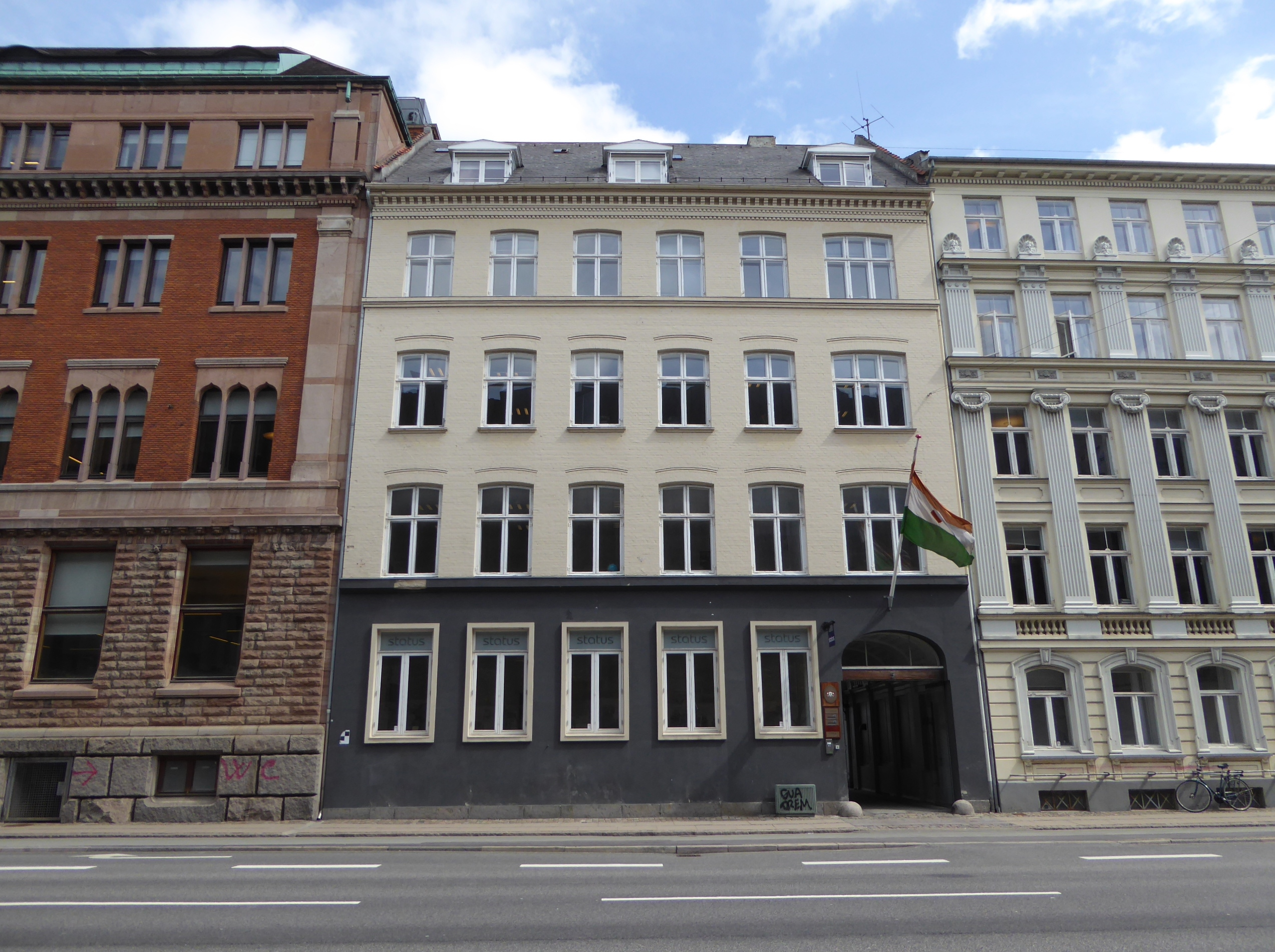 The embassy of Niger at Niels Juels Gade in Indre By in Copenhagen.